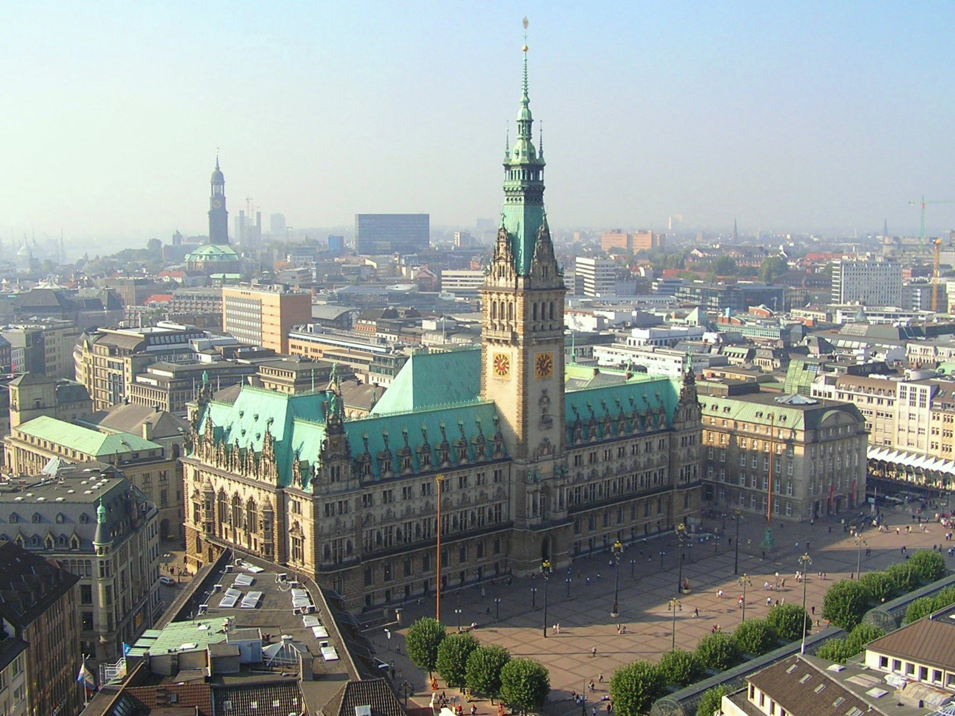 View from the spire of the church of St. Petri on the cityhall and cityhall market in the background the church of St. Michaelis "Michel" Rathausmarkt: This is a photograph of an architectural monument. Rathausmarkt This is a photograph of an architectural monument.